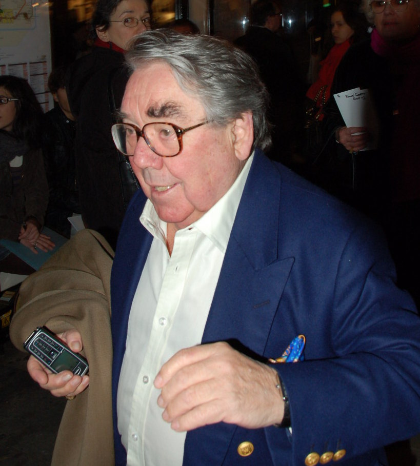 Ronnie Corbett arriving at Premiere of Burke and Hare, Chelsea, London, United Kingdom